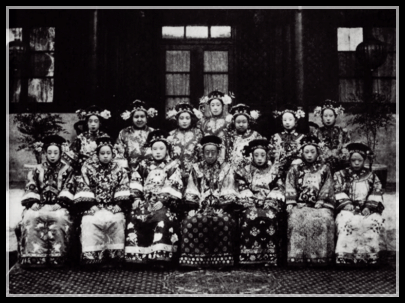 Princess Rongshou-Kurun and other court ladies